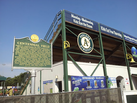 First base side bleachers at Centennial Field, Burlington, Vermont. (June 2014)